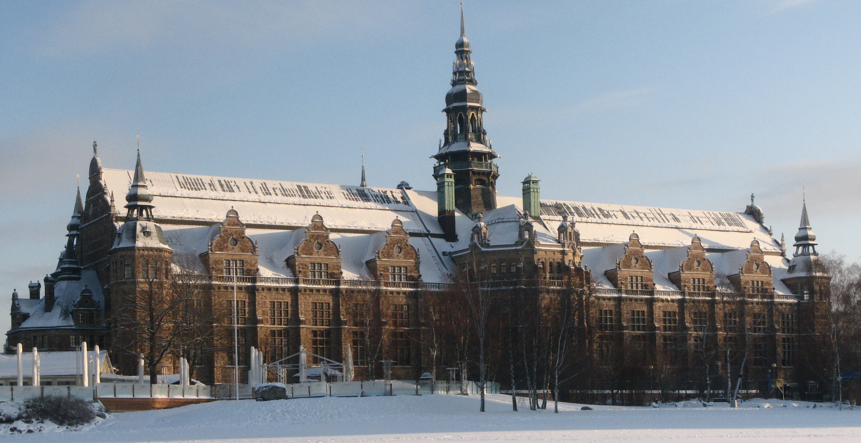 The Nordic Museum in central Stockholm, Sweden.